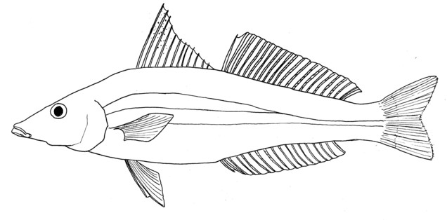 A hand drawn picture of Sillago analis, the Golden lined whiting using pencil and pen. Image based on Grant (1972) and Qld fisheries image.